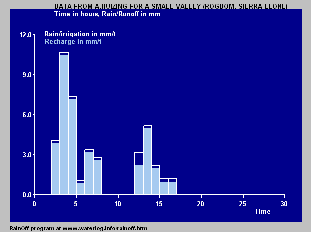 Conversion of rainfall into recharge used in the non-linear reservoir model for surface runoff